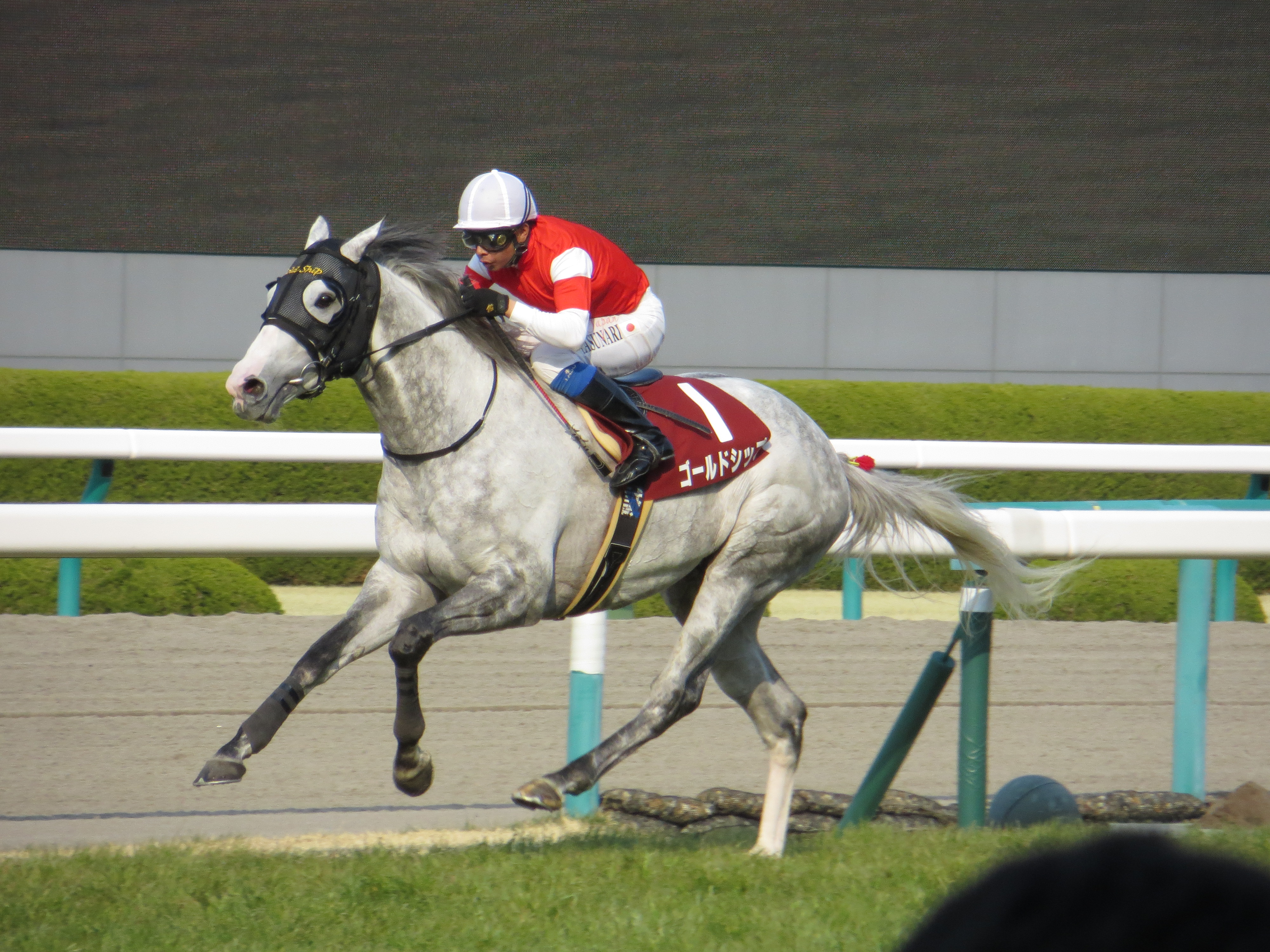 Gold Ship (62th Hanshin Daishoten in Hanshin Racecourse).